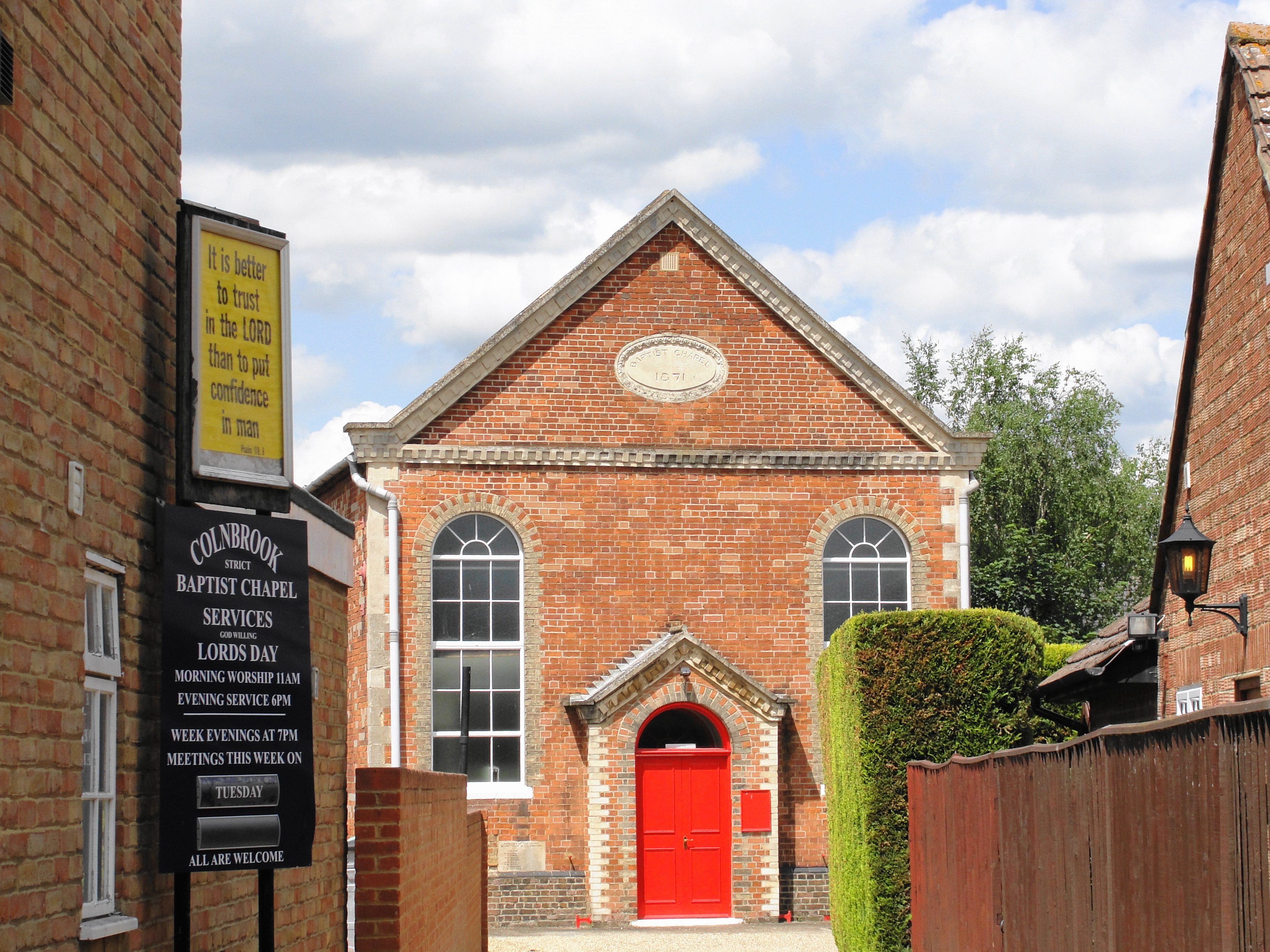 Chapel of the Strict Baptists on Colnbrook High Street